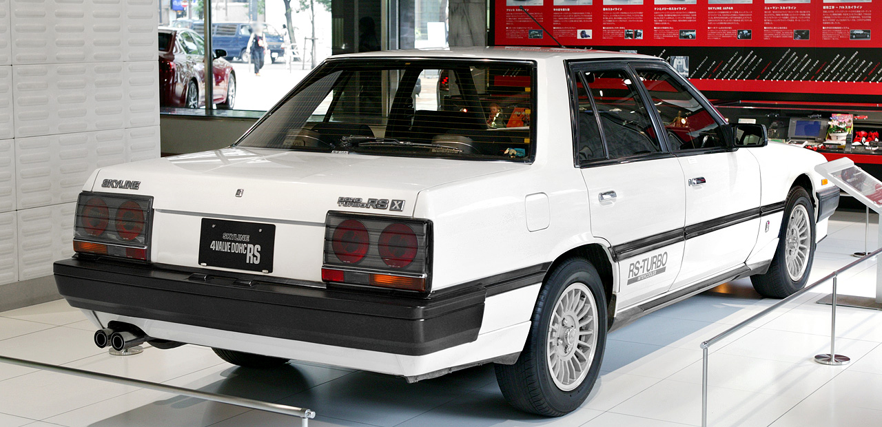 Nissan Skyline R30 Sedan 2000 RS-X Turbo with Intercooler.